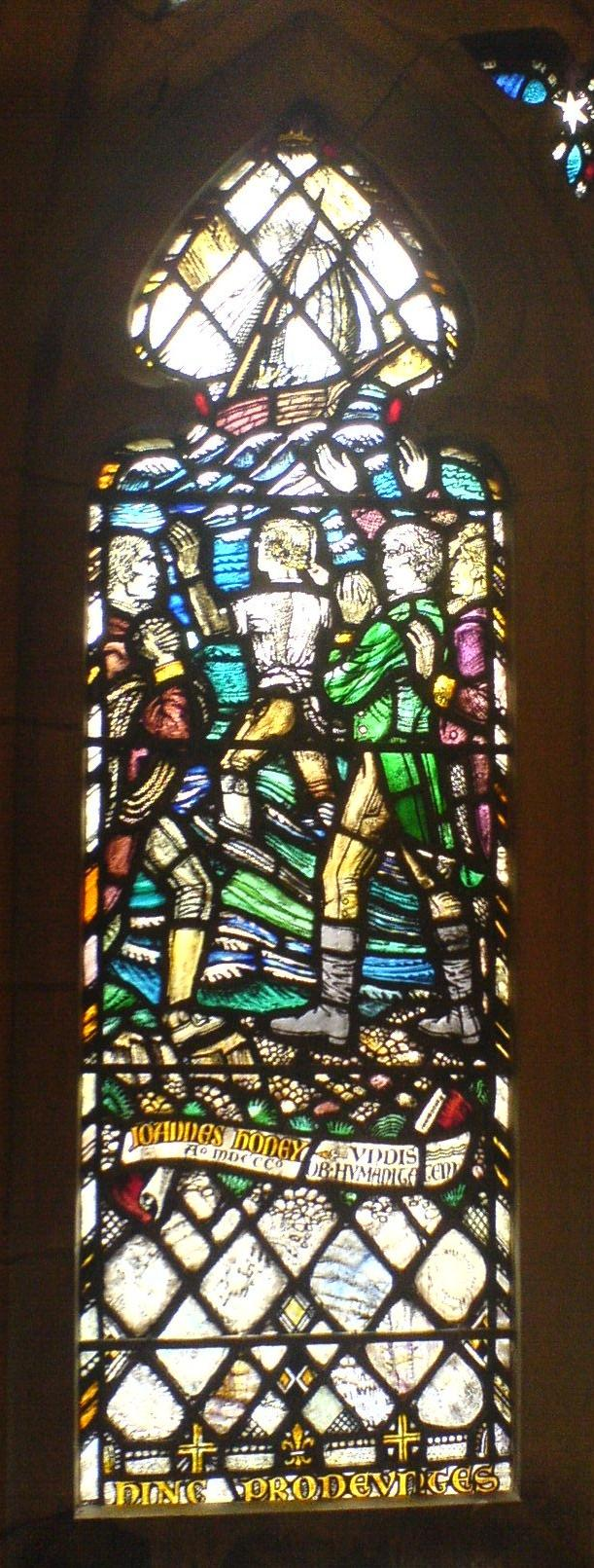 Photograph taken by David Bean, March 2007.